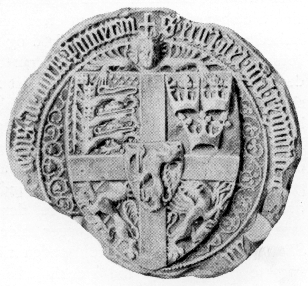 Seal of Danish, Norwegian and Swedish monarch, King Eric of Pomerania. This seal is known from documents dating 1398-1435.